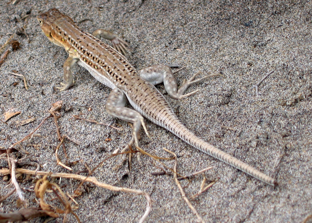 Red tail wall lizard (Acanthodactylus erythrurus) in Cabo de Gata-Níjar Natural Park (Almería, Andalusia).